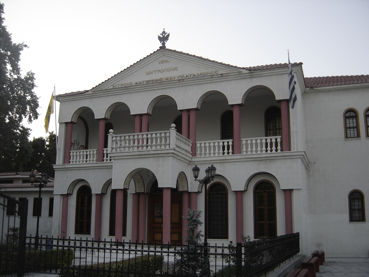 The seat of the Greek Orthodox Bishop in Katerini.